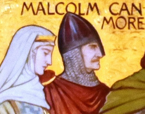 Margaret and Malcolm Canmore, wife depicted on a frieze by the Victorian painter William Hole.